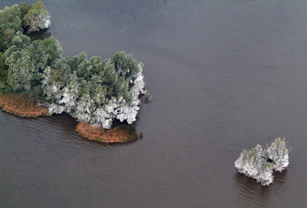 Kis-Balaton, Hungary, aerial photography